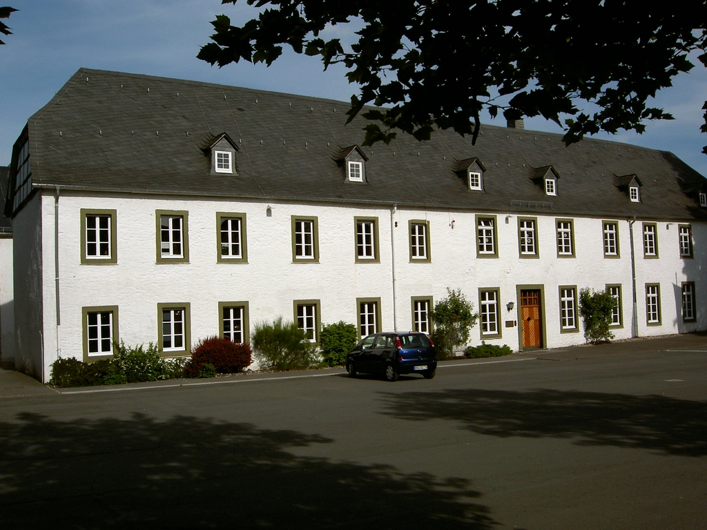 Old Building of the Gymnasium Petrium, Brilon This image shows a heritage building in Germany, located in the North Rhine-Westphalian city Brilon.